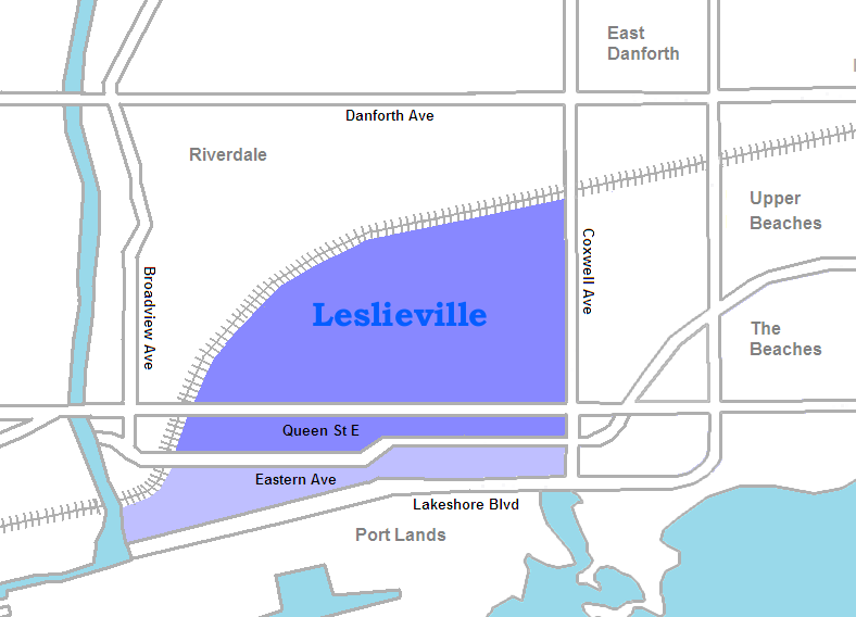 Map of Leslieville